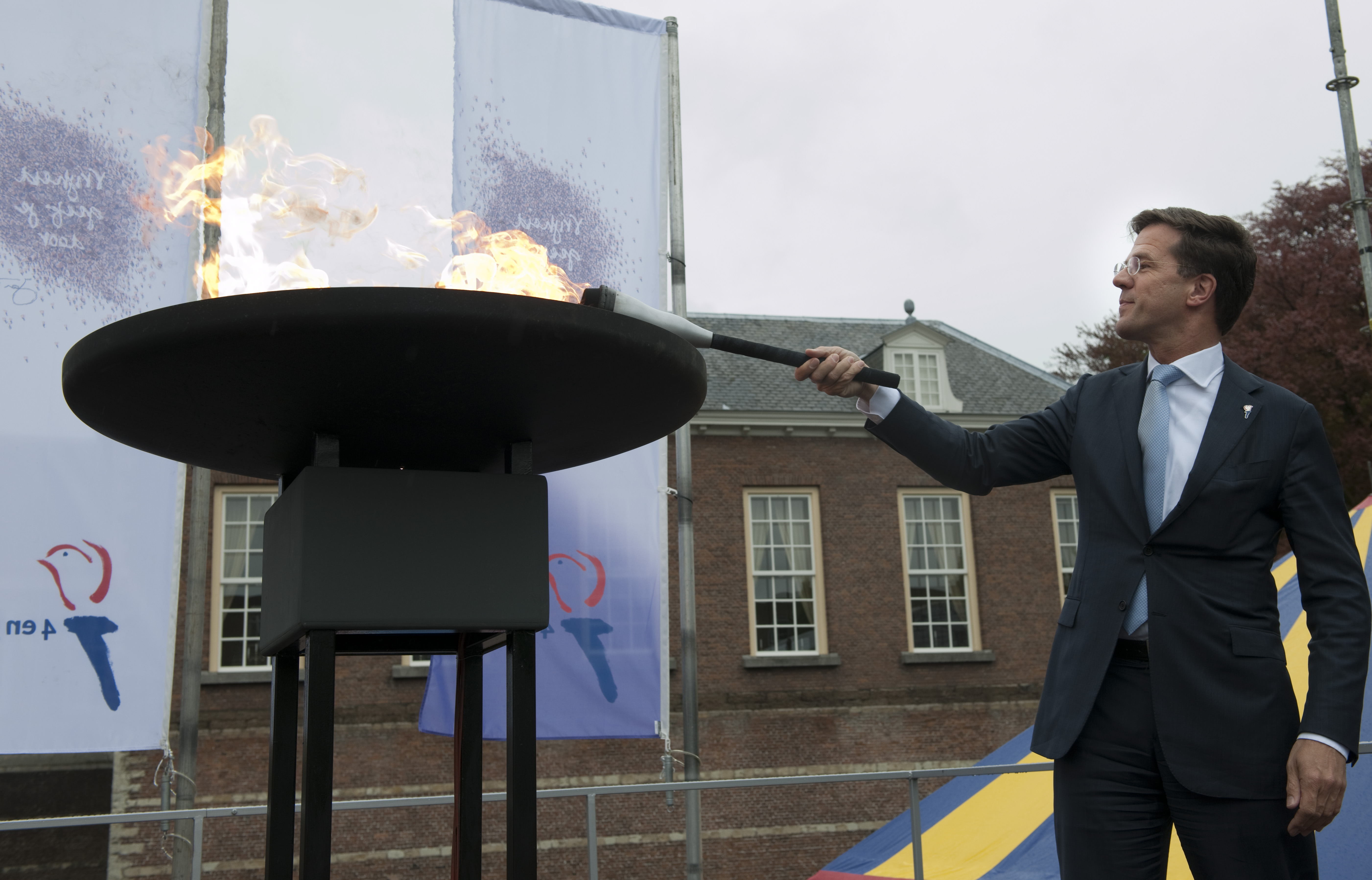 Prime Minister Mark Rutte ignites the fire